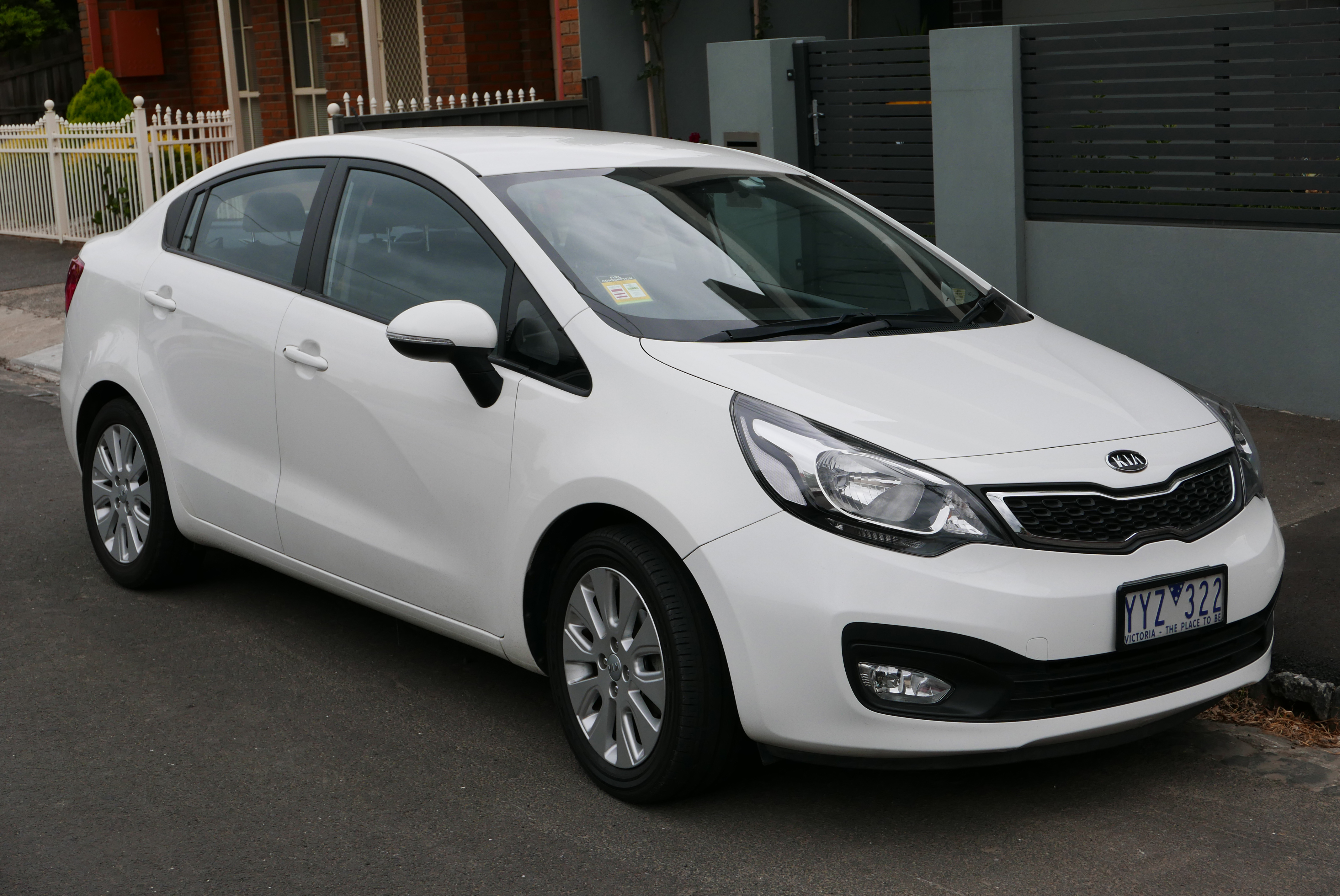 2012 Kia Rio (UB MY12) Si sedan. Photographed in Brunswick, Victoria, Australia. Vehicle registration enquiry resultsJurisdictionVictoriaRegistrationYYZ322Chassis codeKNADN413MC6057890Engine codeG4FDBS222772Compliance date2012-01Year of manufacture2012